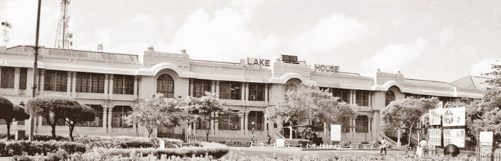 LakeHouse